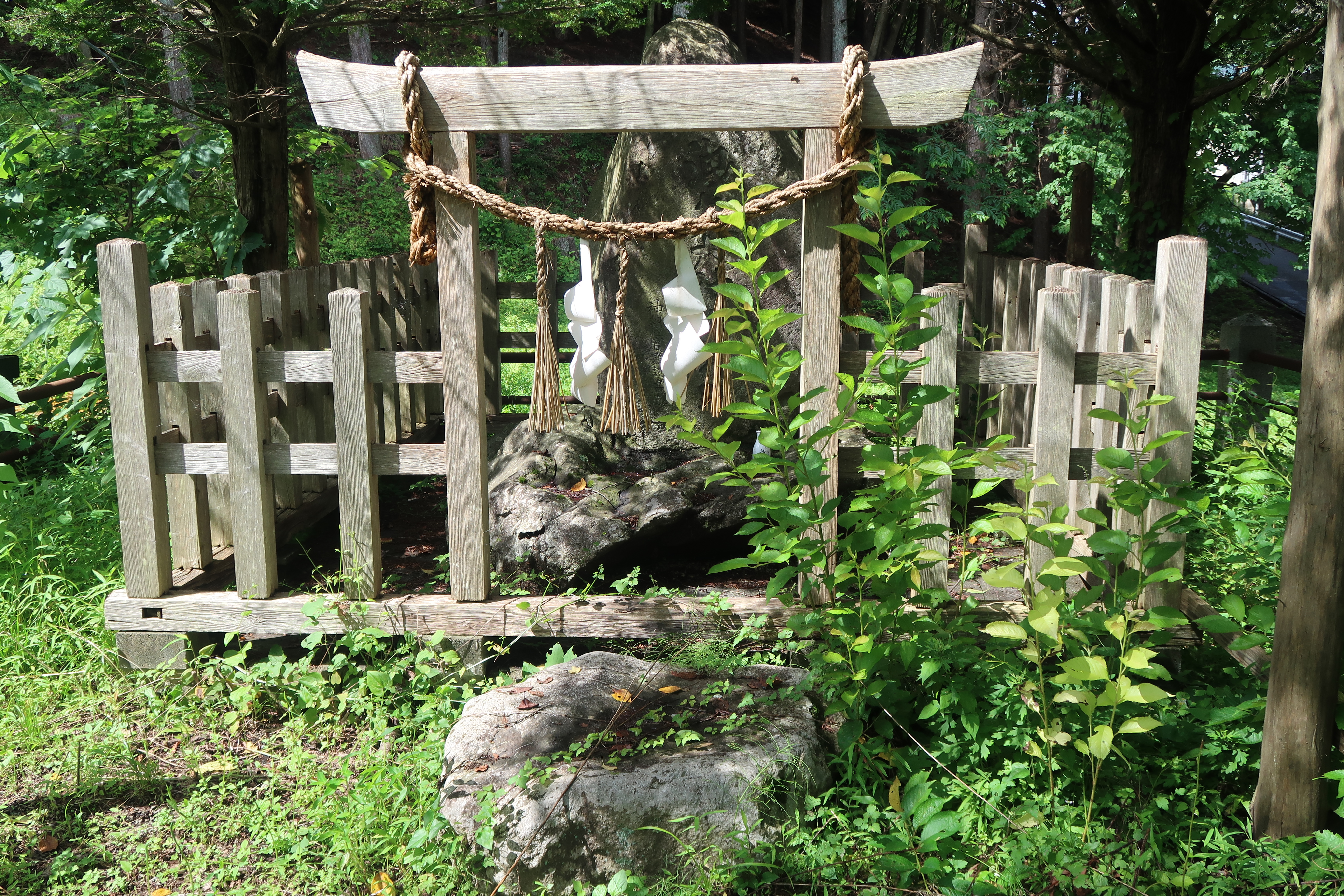 Moriya-no-Ōkami Gokyūseki (Kawagishi-Higashi, Okaya, Nagano)